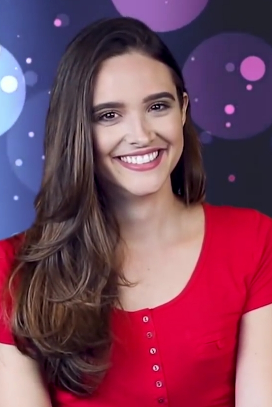 Depicted person: Juliana Paiva – Brazilian actress